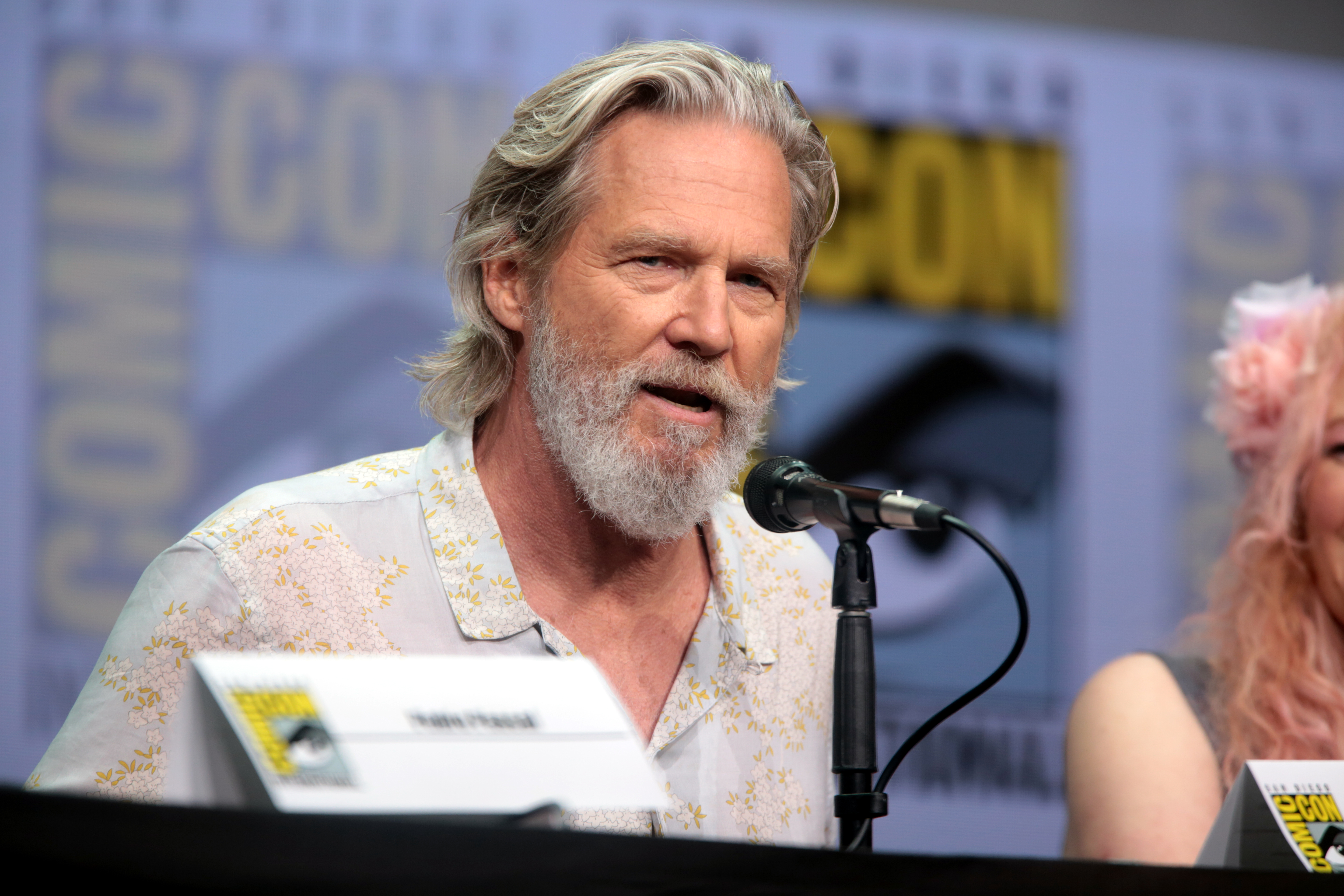 Jeff Bridges speaking at the 2017 San Diego Comic Con International, for "Kingsman: The Golden Circle", at the San Diego Convention Center in San Diego, California.